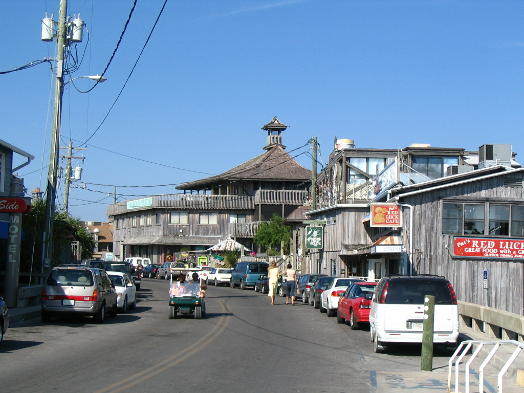 Dock Street, Cedar Key, Florida, May 30, 2004. Photo taken by User:Zdv on May 30, en:2004, at Cedar Key, Florida.